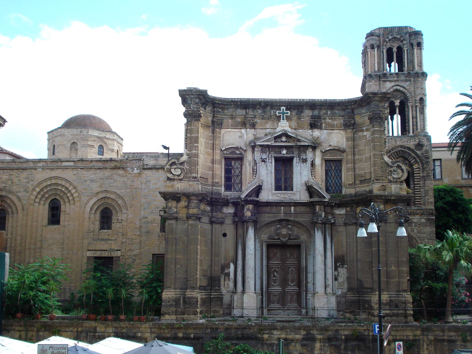 Martorana-norhern facade (piazza Bellini)